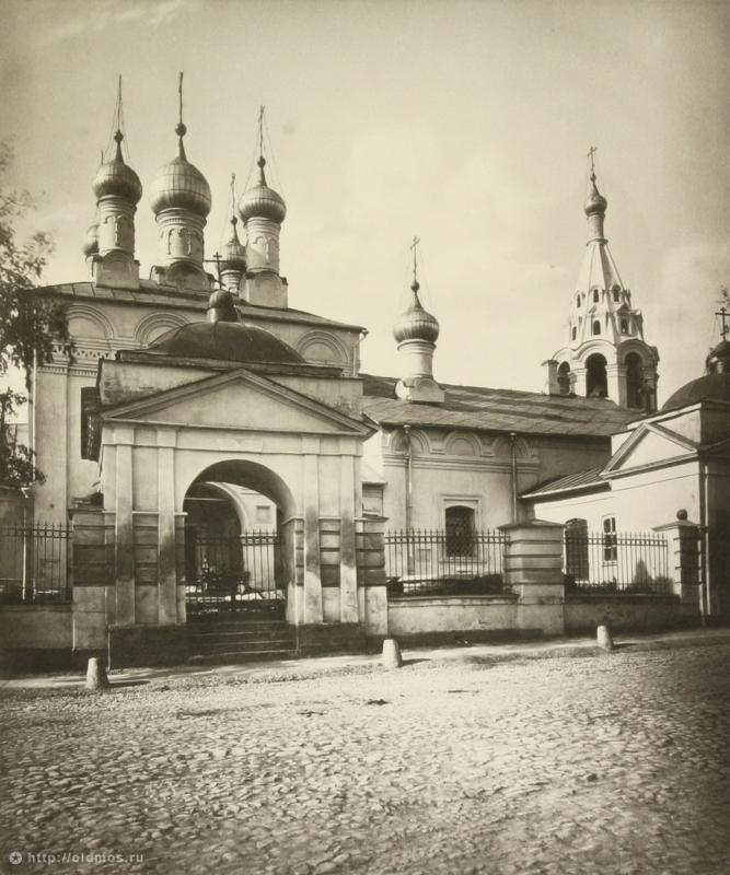 Saint Simeon Stylites Church on Povarskaya Street